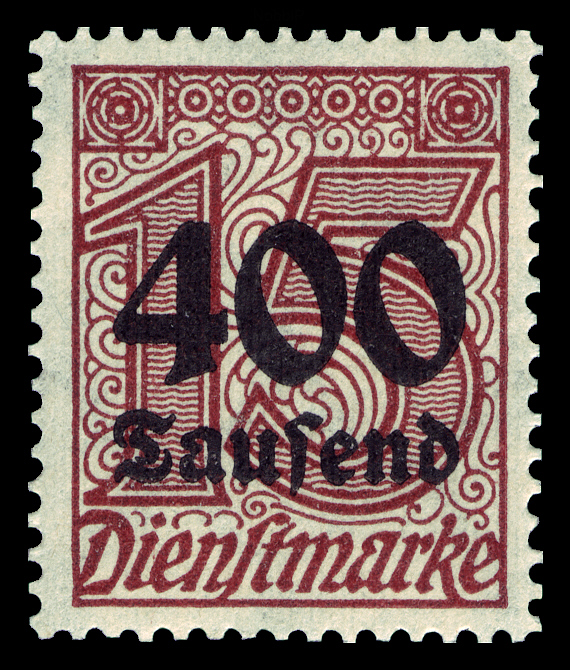 Official stamp series 1923 Ausgabepreis: 400 Tausend Mark First Day of Issue / Erstausgabetag: August 1923 Michel-Katalog-Nr: 94 (Dienstmarke Deutsches Reich)